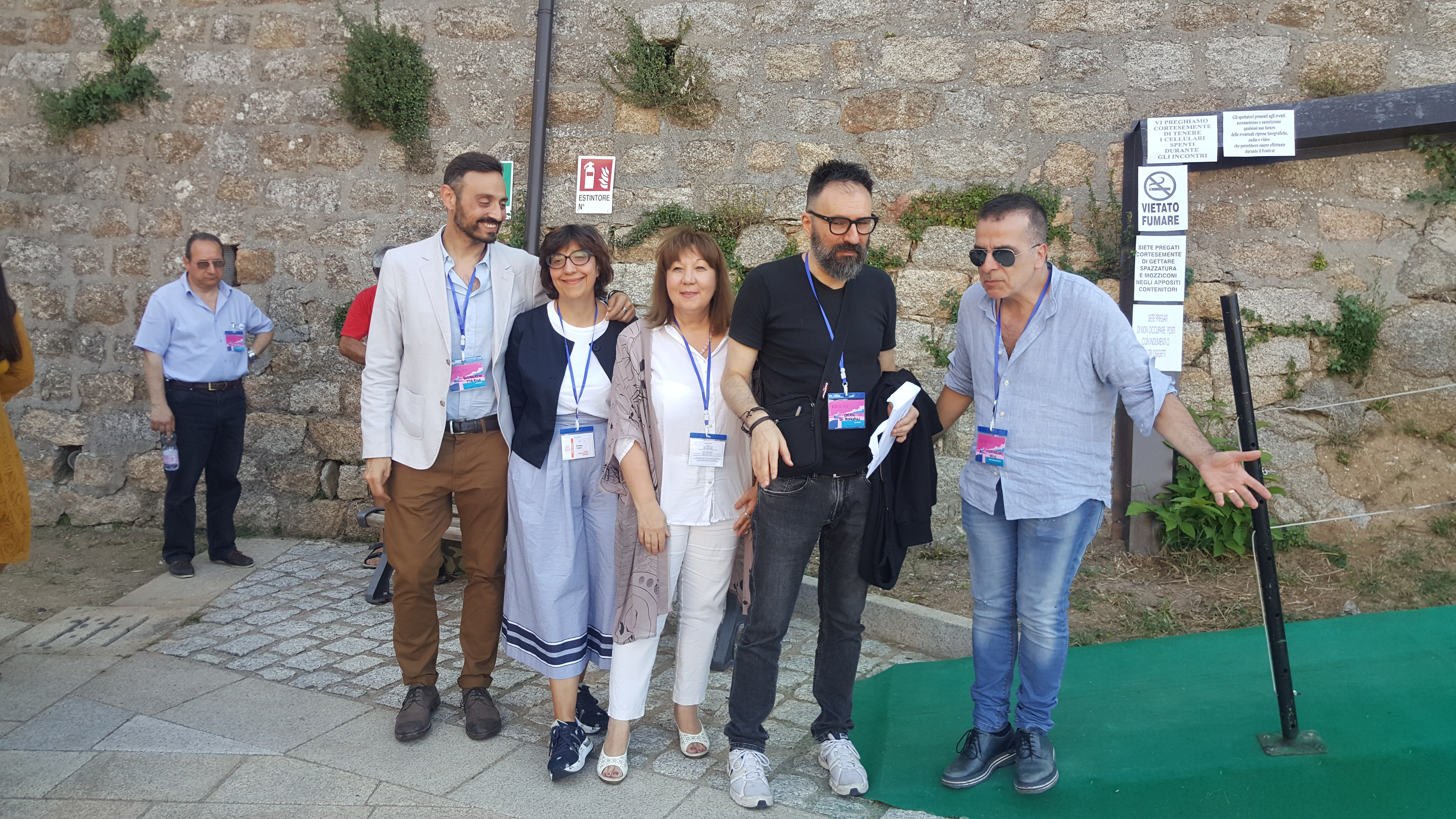 Writers to Sardinia Literary Festival, Gavoi, 2018: Marcello Fois, Omar Monopoli, Doina Ruști, Simonetta Bitasi, Roberto Merlo